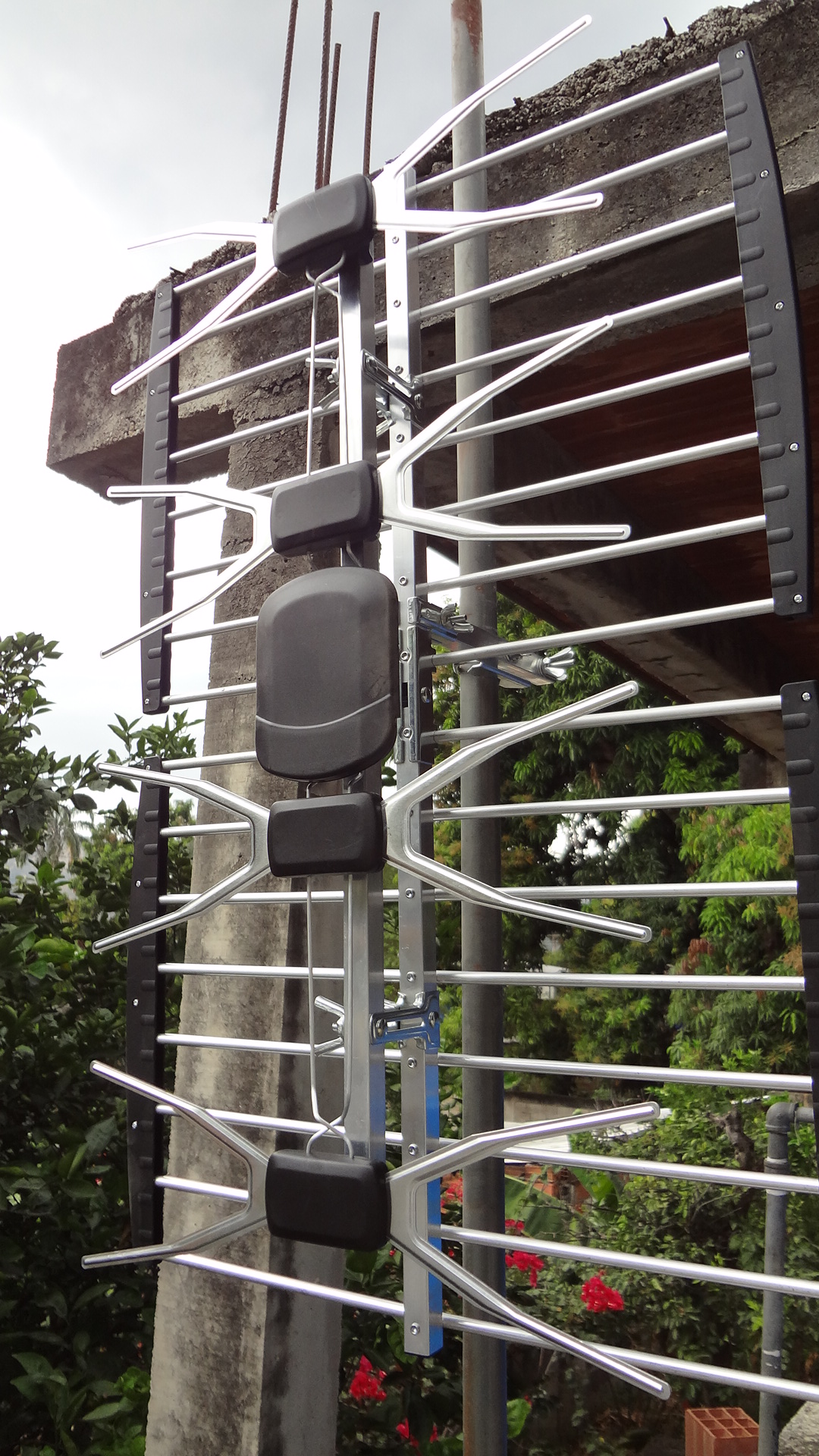 Installation of external UHF antenna for Open Digital Television in Venezuela.